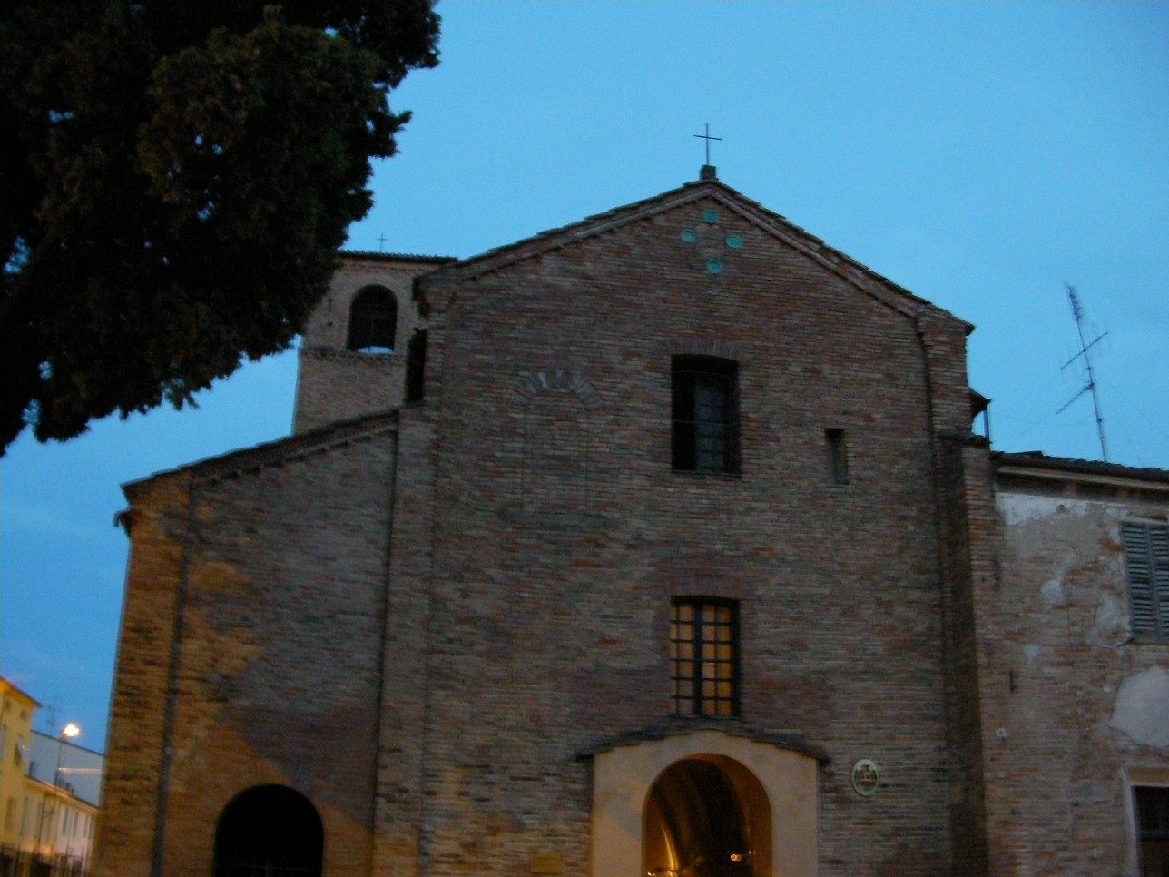 Façade of the church of Saint Maria Maddalena or of the Commenda